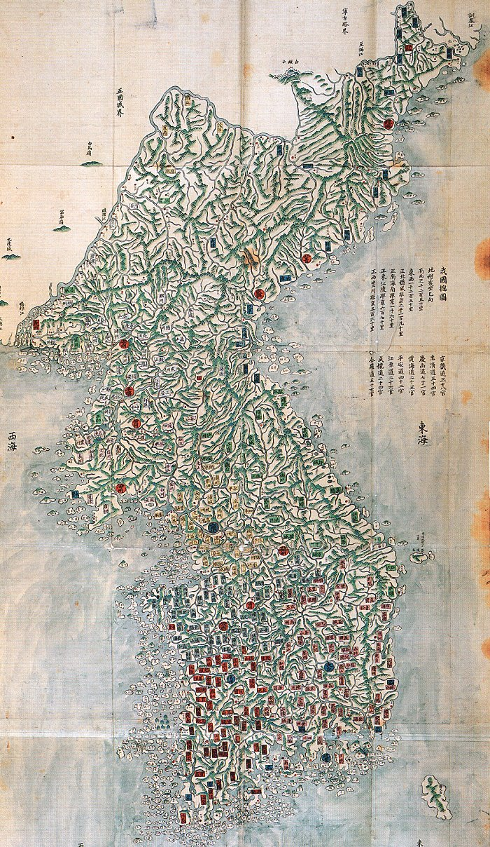 Yeojido also known as Aguk chongdo is a map of Korea in the late 18th century.